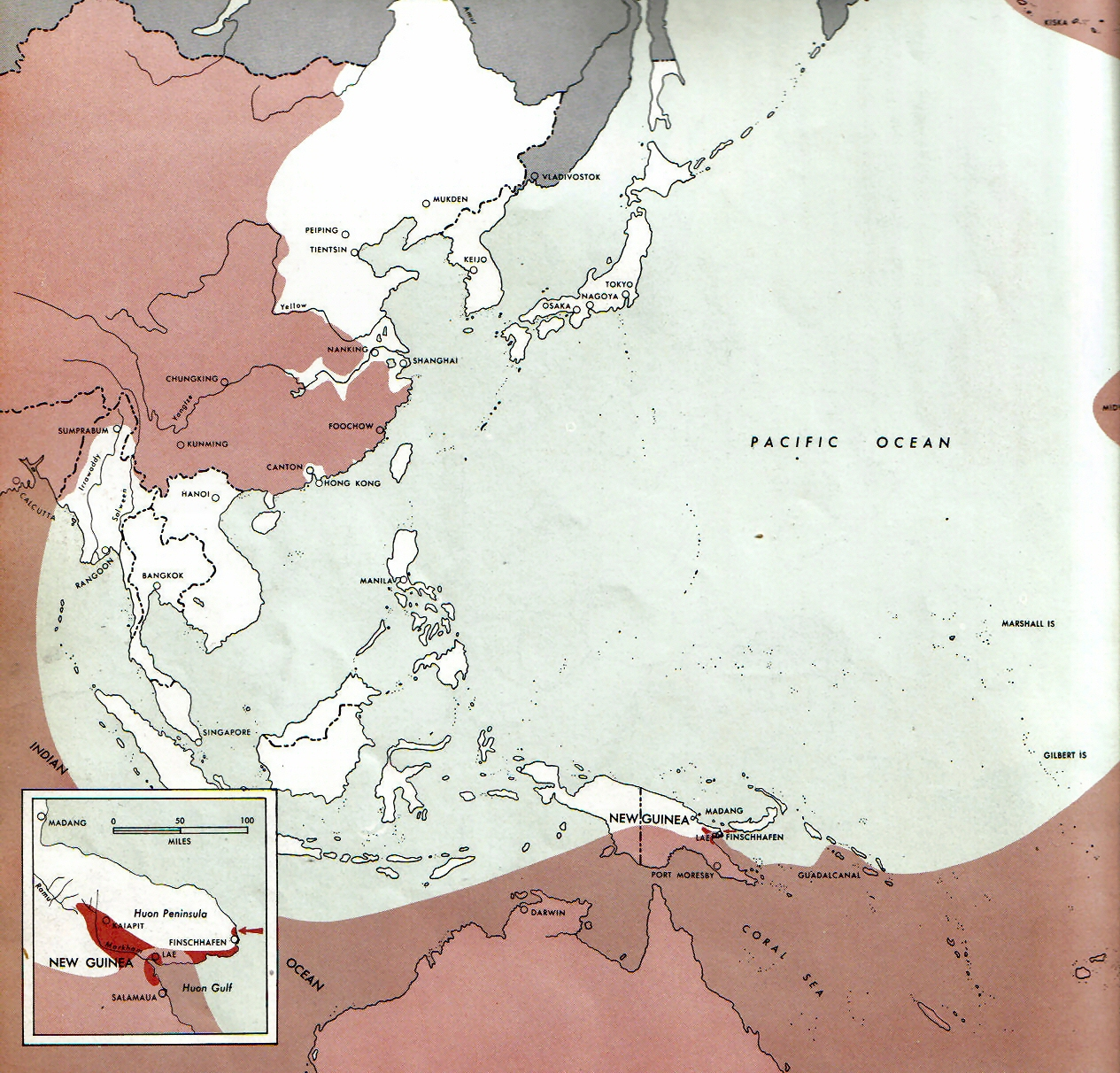 Map of the front against Japan as of 1 Oct 1943: This map is taken from the source "Atlas of the World Battle Fronts in Semimonthly Phases to August 15th 1945: Supplement to The Biennial report of The Chief of Staff of the United States Army July 1, 1943 to June 30 1945 To the Secretary of War". (See Cover, Forward and Map details)